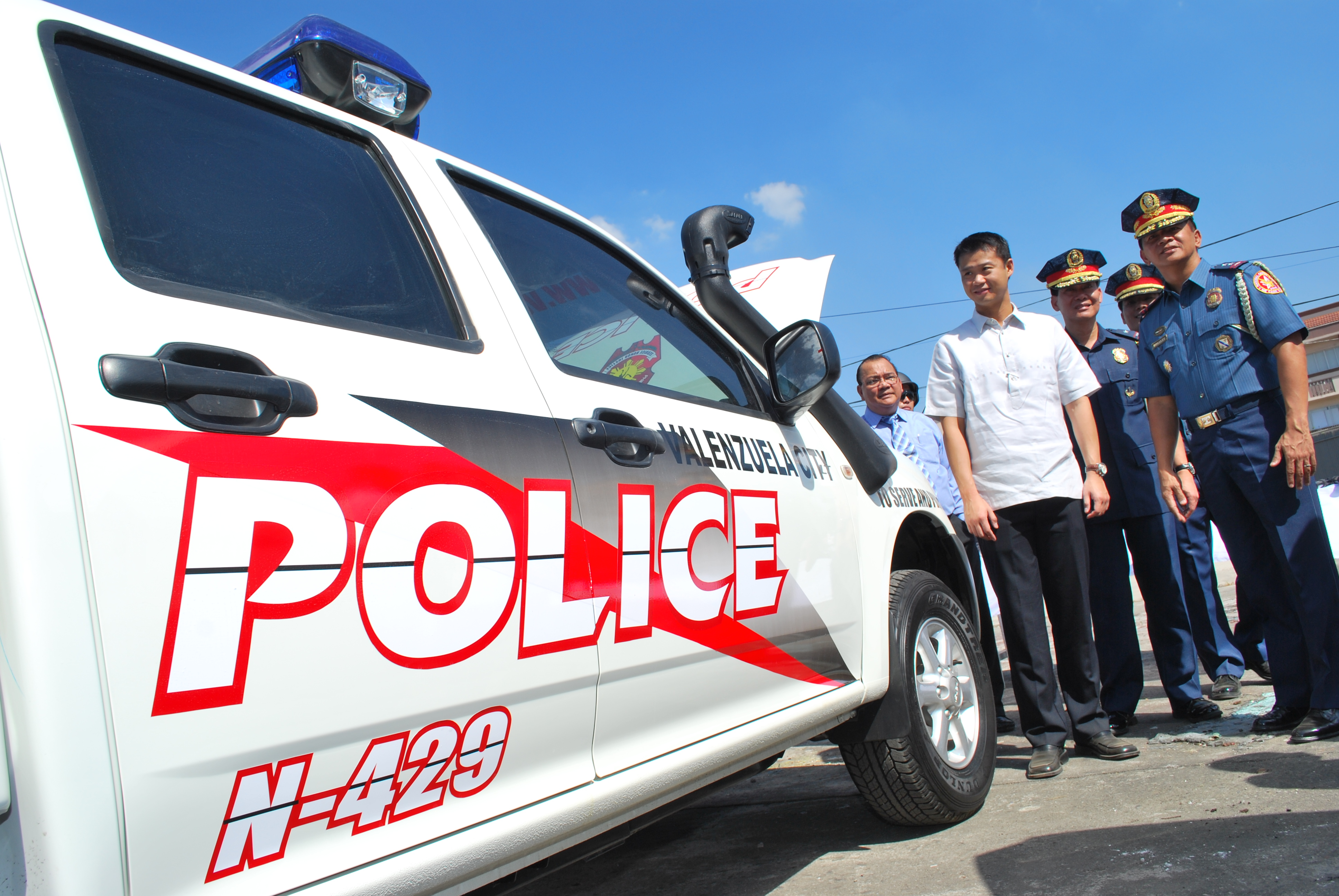 February 11, 2010, at the Valenzuela City Police Headquarters groundbreaking ceremony